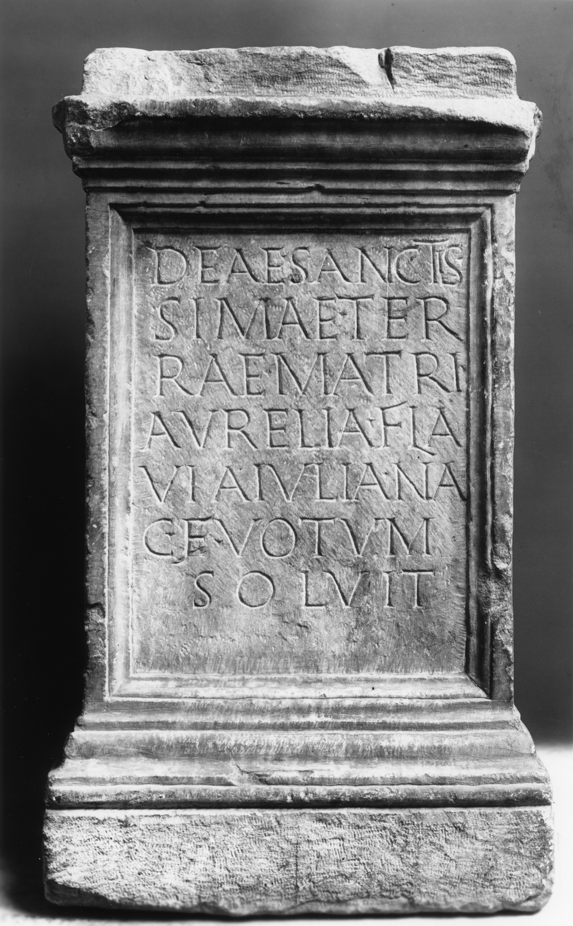 This stele has a Latin inscription. On the right end is a ring, on the left a vase. The back is cut off and the base and top are unfinished.